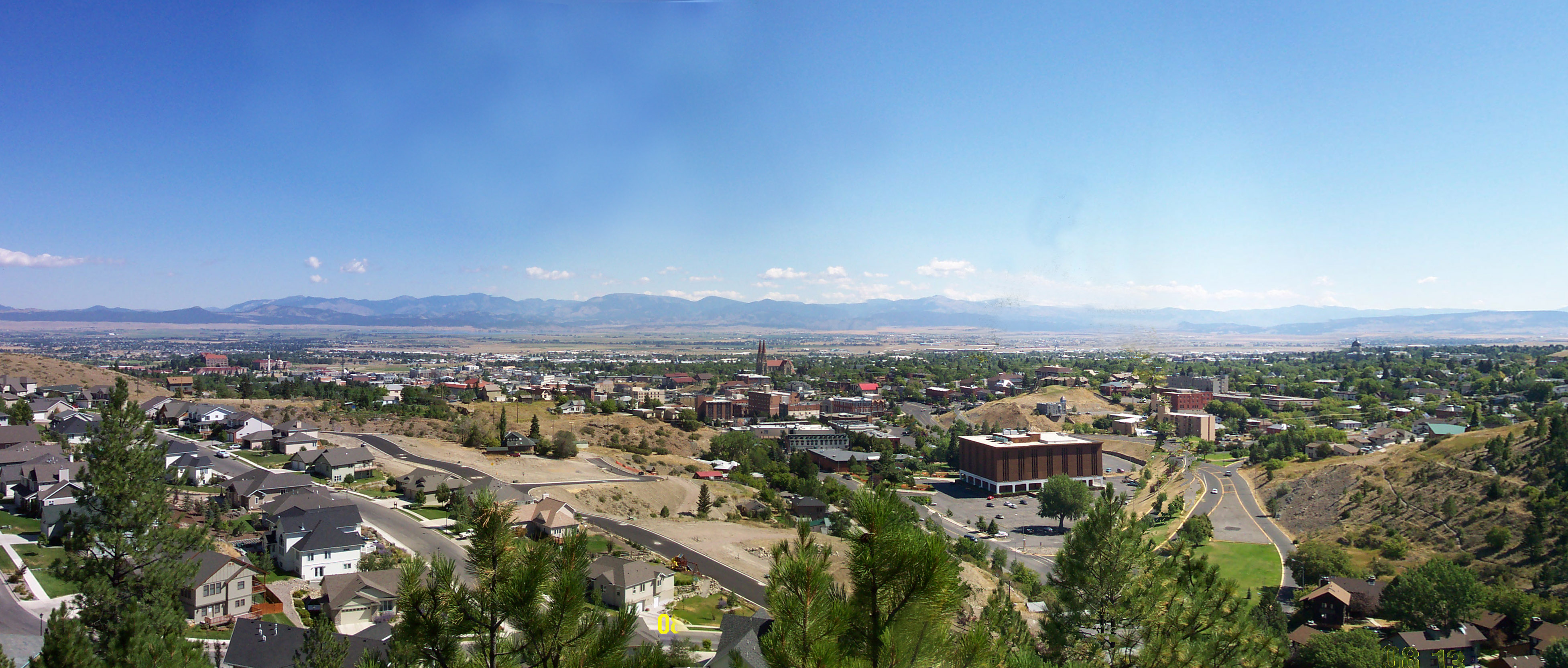 Photo of Helena, Montana with similar view to that in the 1870 photo, to show changes since then to 2006.